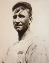 Former NY Giants pitcher Charlie Faust.